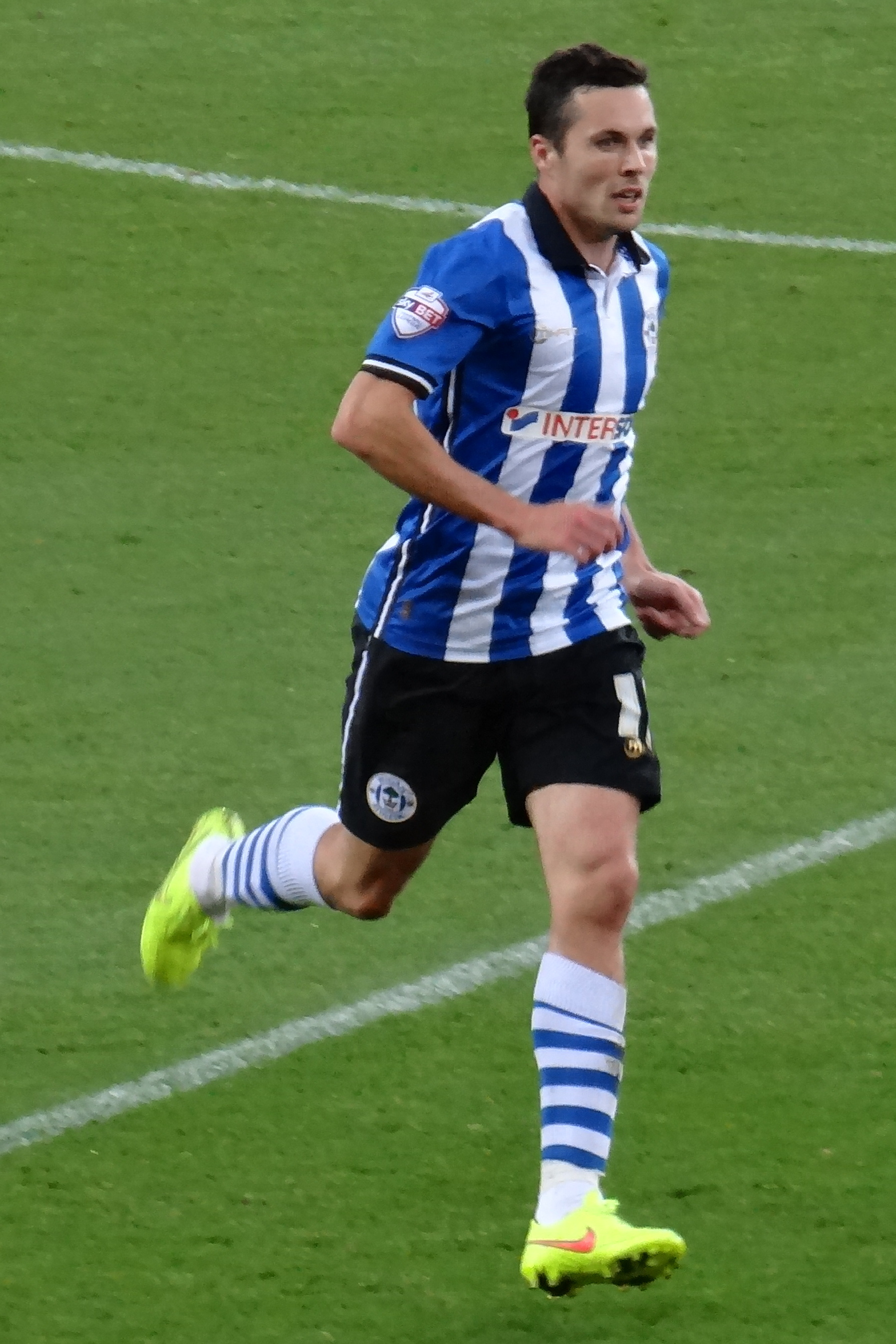 Scottish international footballer as playing for Wigan Athletic against Cardiff City.